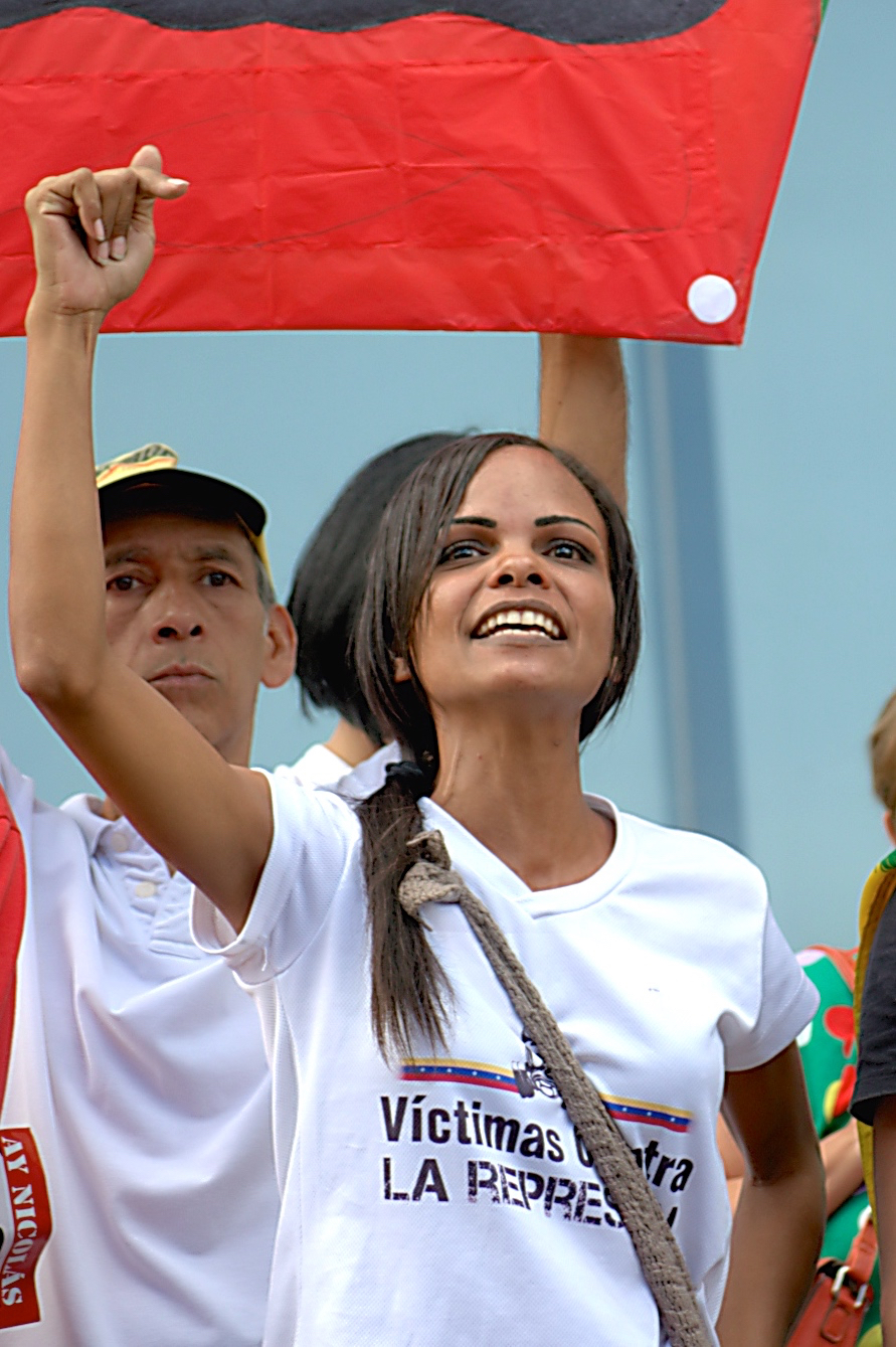 Photo of Marvinia Jiménez during a 7 December demonstration in Venezuela